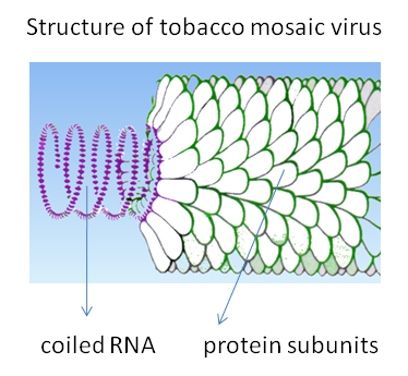 Diagram of the structure of tobacco mosaic virus